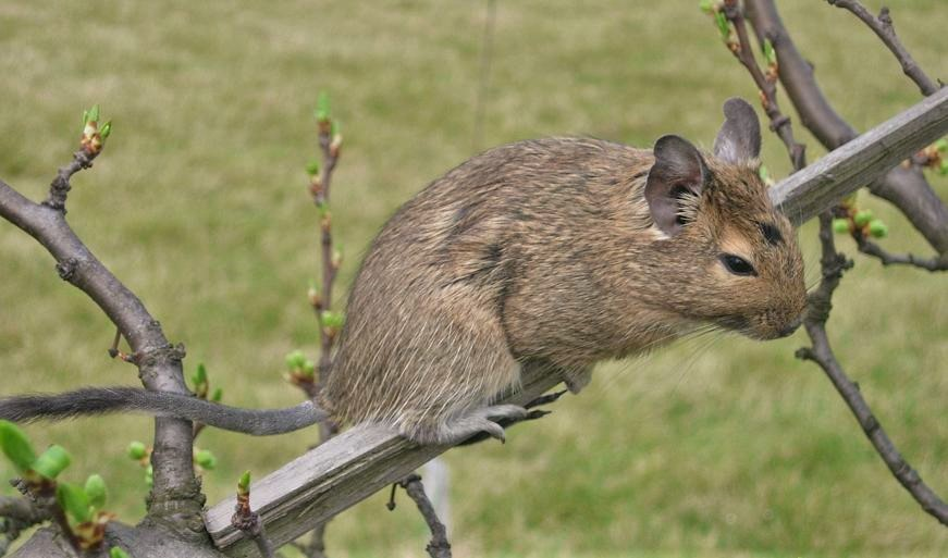 Degu (Octodon degus)